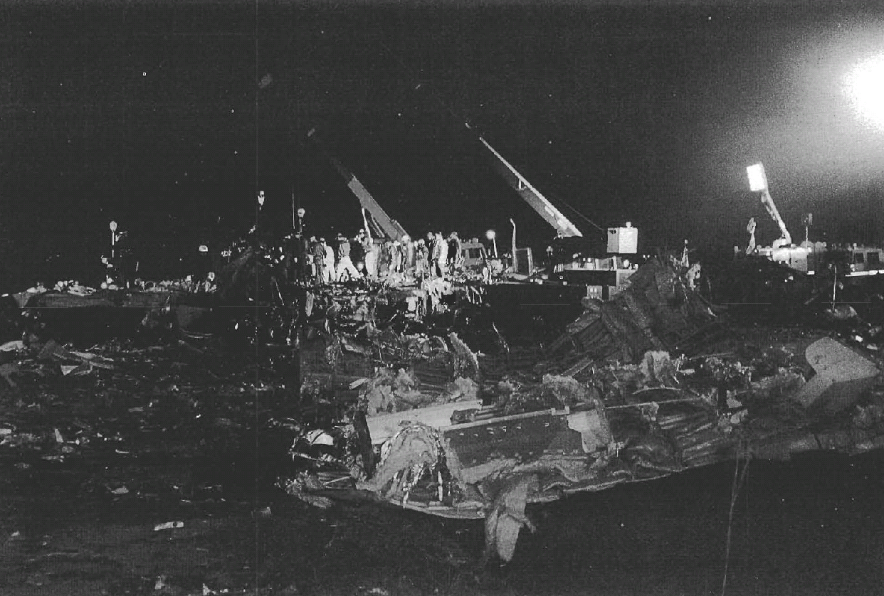 Flight 140 ultimately stalled and crashed into the ground, killing 264 of the 271 people on board.